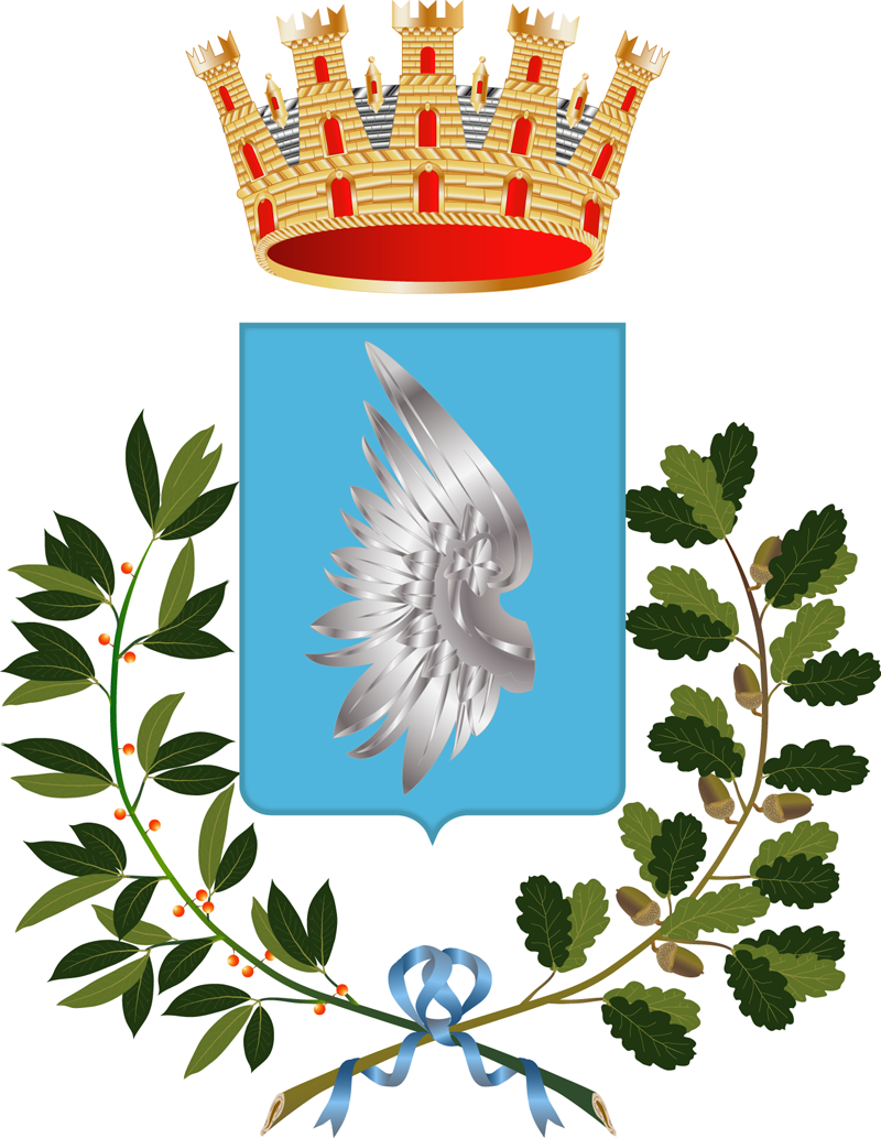 Coat of arms of Ala (Authonome province of Trento), Italy